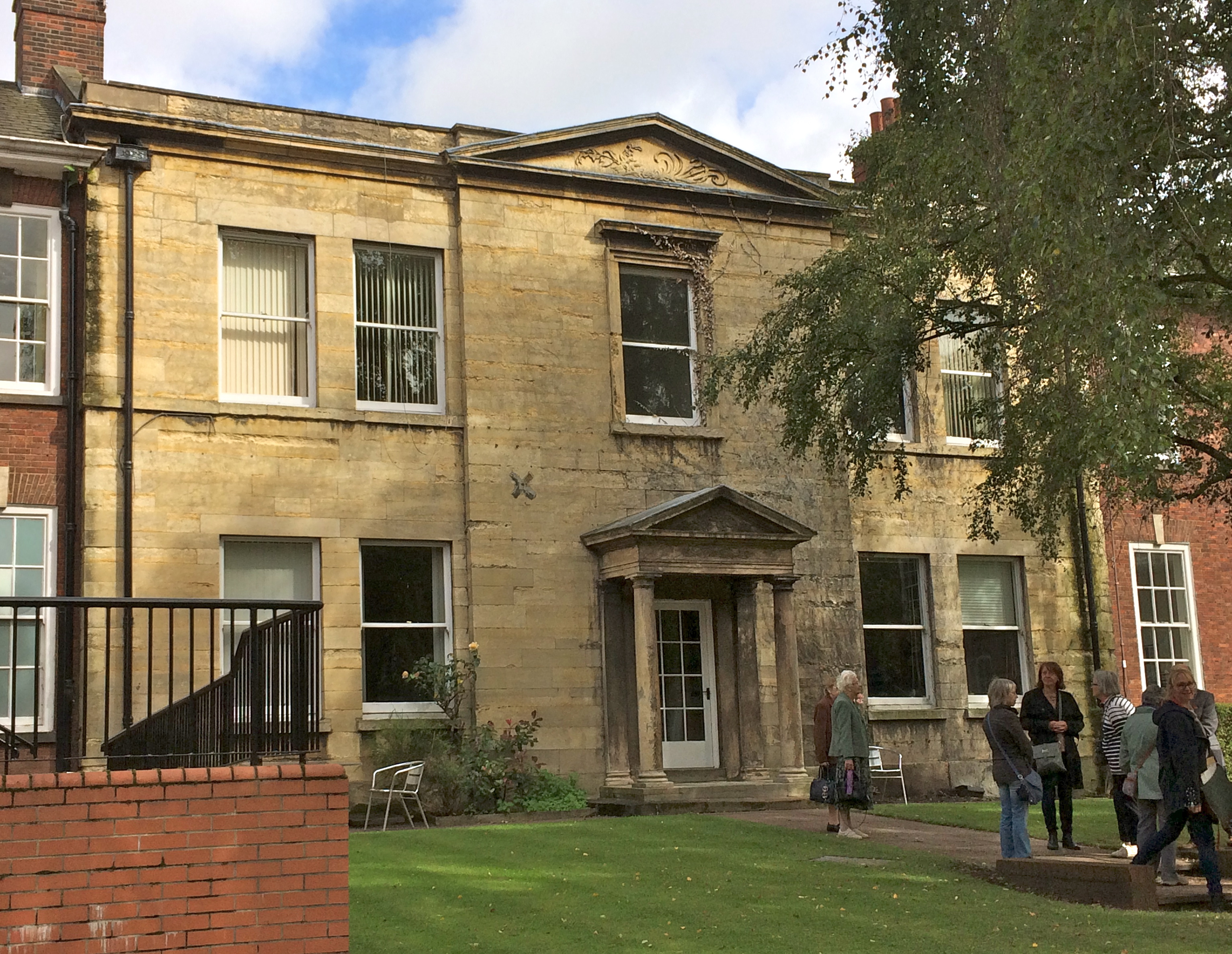 Newland House, incorporated into Lincolnshire County Council Offices, Newland, Lincoln, U.K. Limestone ashlar with slate roof with eaves cornice, plain parapet. Two storey with five bays. Projecting centre with pediment containing a foliated scroll. Central Doric porch. Built c.1825, architect William Hayward. Listed building ID 1388719 (Buildings of England: Lincolnshire: Pevsner N: Lincolnshire: London: 1989-: 504 for County Hall - this building is ommitted).